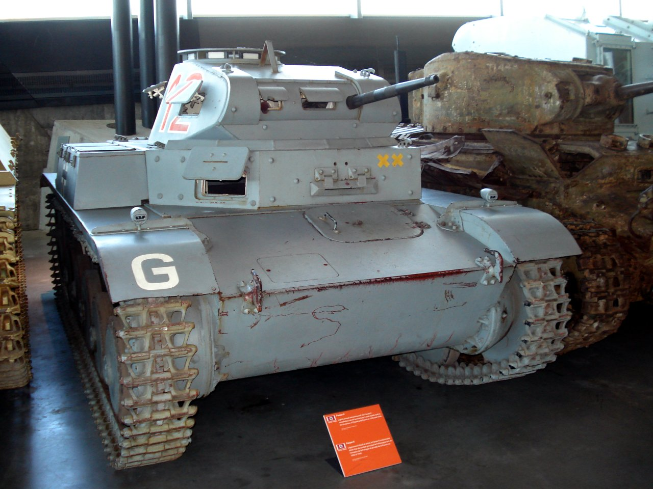 German light tank Panzer II displayed at the Canadian War Museum in Ottawa, Ontario. Judging by the suspension and number of road wheels and the shape of the drivers plate, it is an Ausf. C. It carries the markings of the 6. Panzer-Division (two yellow crosses). Source: Photo by me, User:Balcer. Date=July 31, 2007